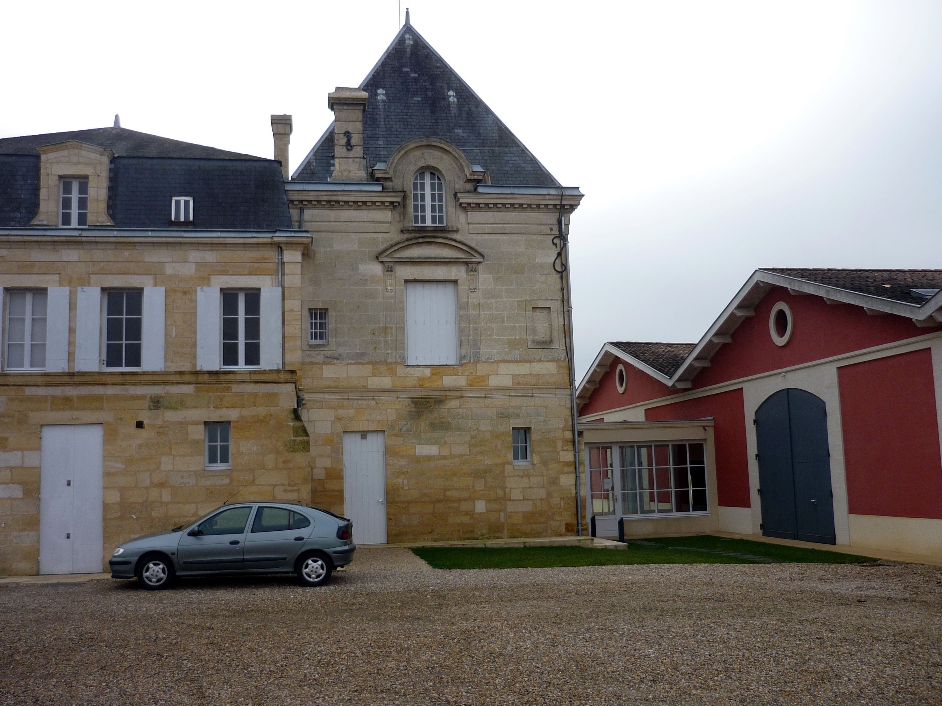 Exterior of Pomerol winery Château l'Evangile located on the right bank of the French wine region of Bordeaux.